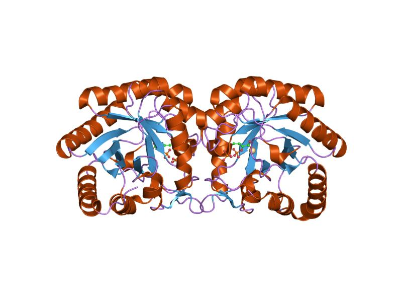 Cartoon representation of the molecular structure of protein registered with 1pck code.